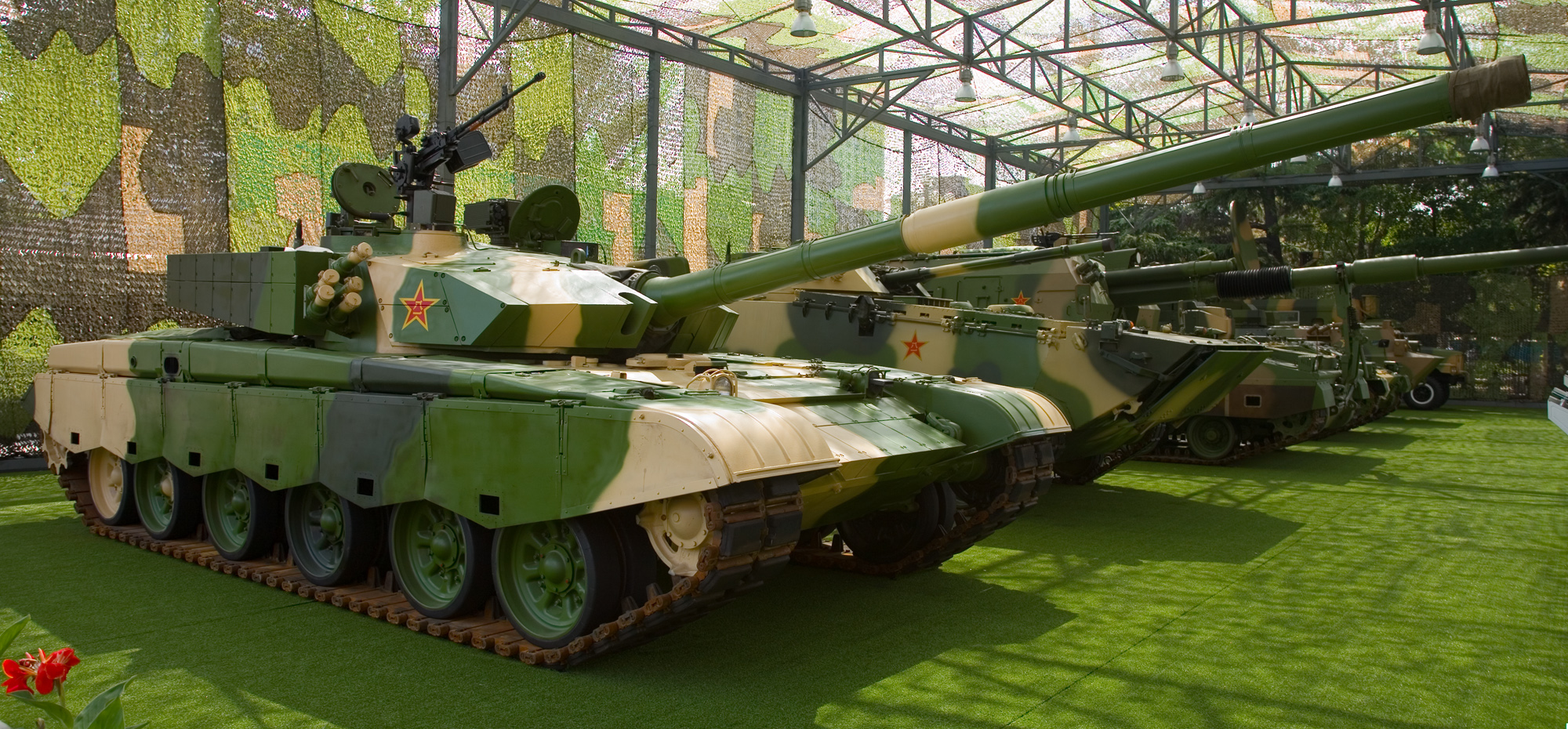 A Chinese Type 99 Main Battle Tank on display at the Beijing Military Museum as part of the "Our troops towards the sky" exhibition.